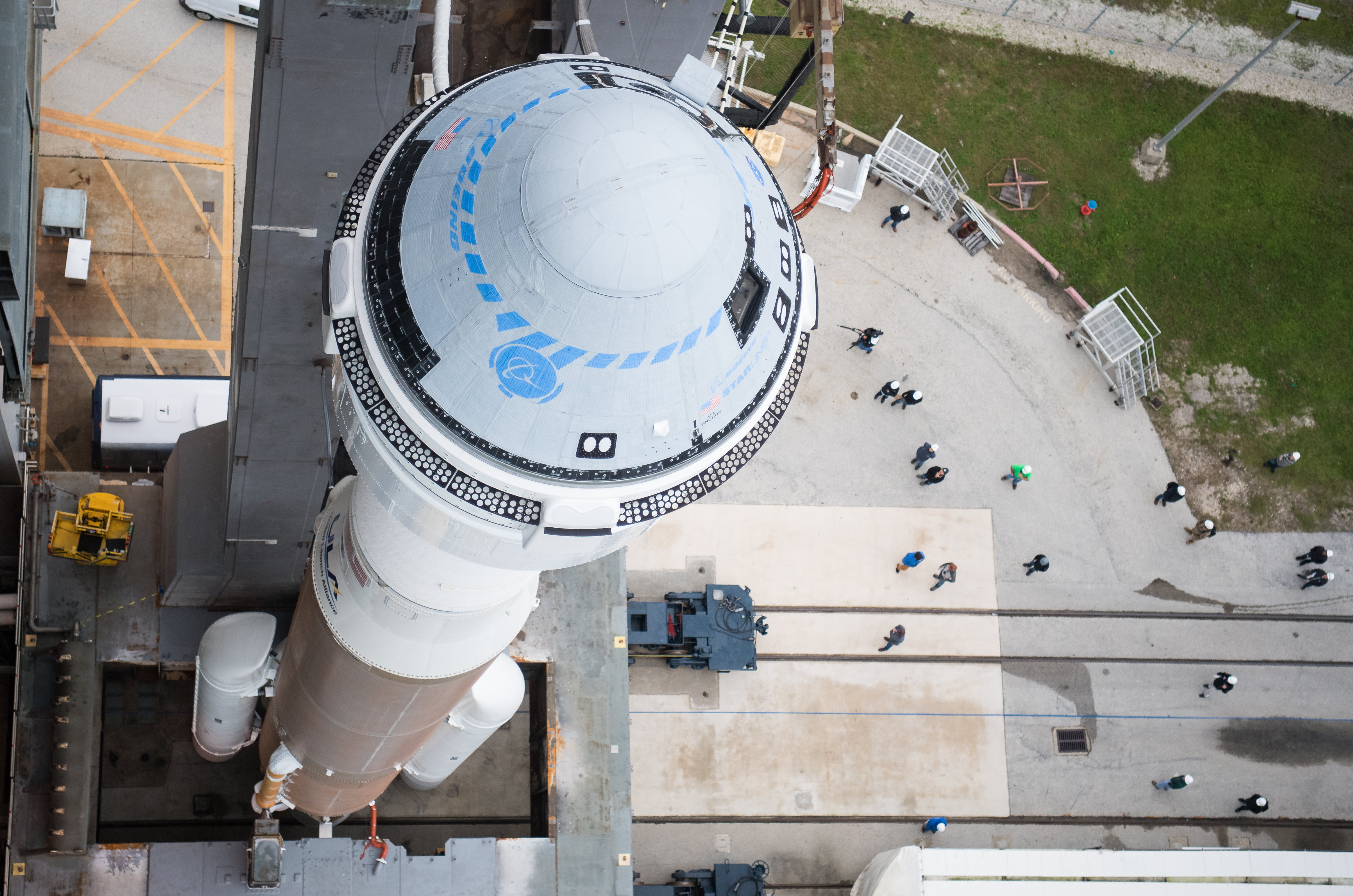 A United Launch Alliance Atlas V rocket with Boeing’s CST-100 Starliner spacecraft onboard is seen as it is rollout out of the Vertical Integration Facility to the launch pad at Space Launch Complex 41 ahead of the Orbital Flight Test mission, Wednesday, Dec. 18, 2019 at Cape Canaveral Air Force Station in Florida. The uncrewed Orbital Flight Test will be Starliner’s maiden mission to the International Space Station for NASA's Commercial Crew Program. The mission, currently targeted for a 6:26 a.m. EST launch on Dec. 20, will serve as an end-to-end test of the system's capabilities.